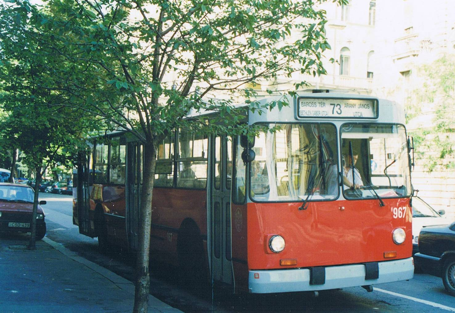 Budapest, Hungary. A trolleybus.